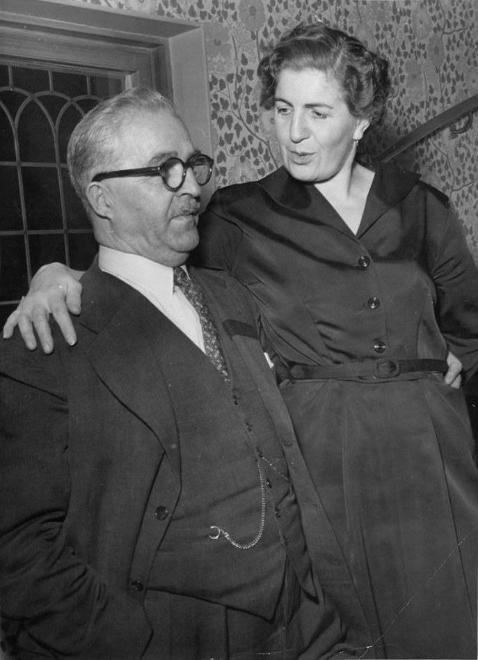 Calle Jularbo posing with his wife Sally.